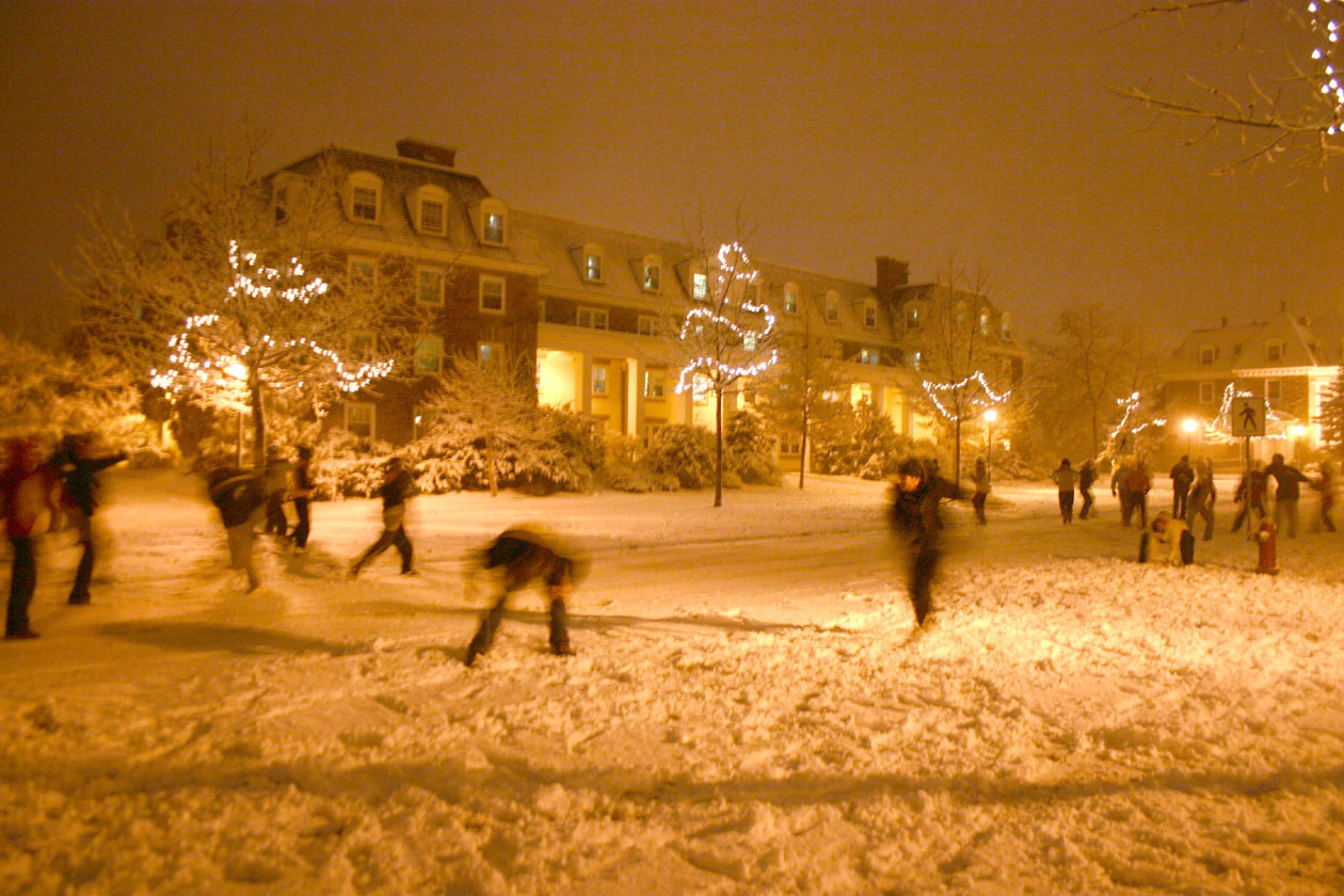 Snowball fight on the campus of StFX University